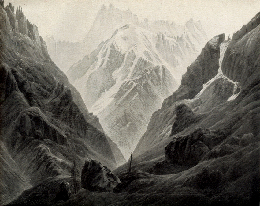 'High Mountain Region', by Caspar David Friedrich, ca. 1824. The painting was destroyed or disappeared in Berlin in May 1945, in the Friedrichshain flak tower fire. - Dimensions: 131 x 167cm - Oil on canvas